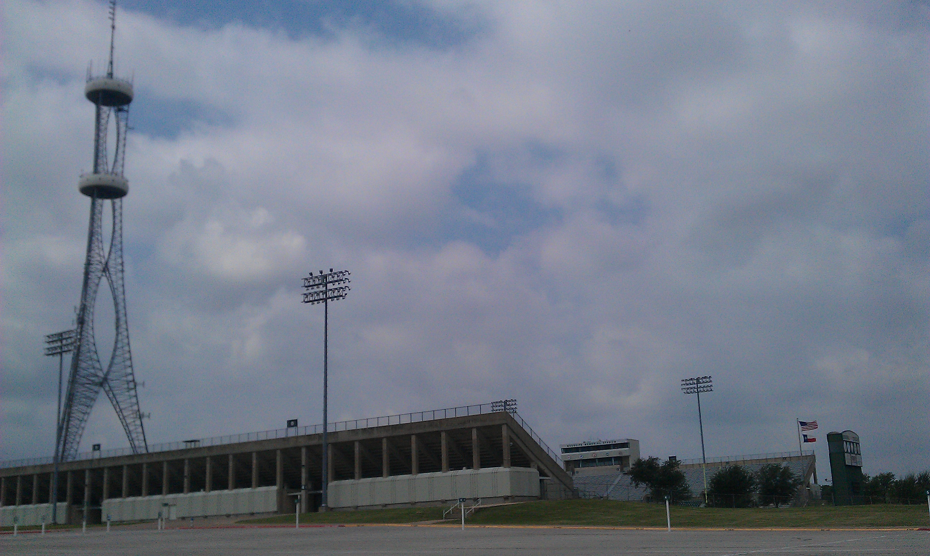 Mesquite Tower rising over Memorial Stadium in Mesquite.